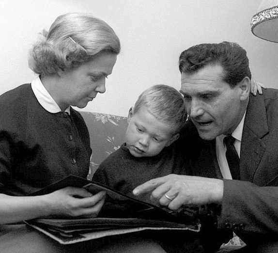 Adolfo Consolini with family at his home in Italy